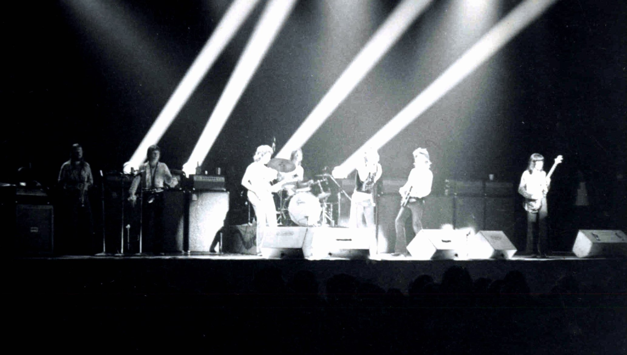 The Rolling Stones at Kiel 7/9/72---Kiel Auditorium, St. Louis---Jim Price, Bobby Keys, Mick Taylor, Charlie Watts, Mick Jagger, Keith Richards, Bill Wyman